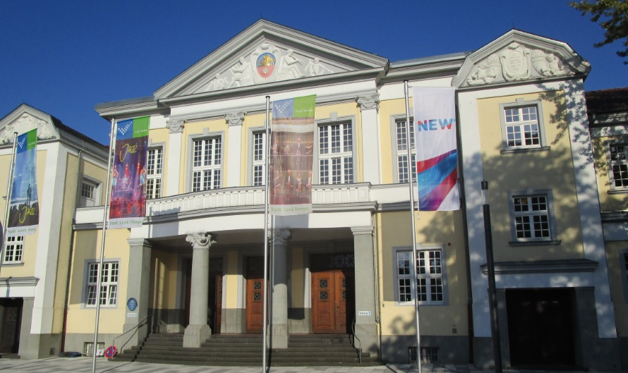 Festival Hall in Viersen, September 2015